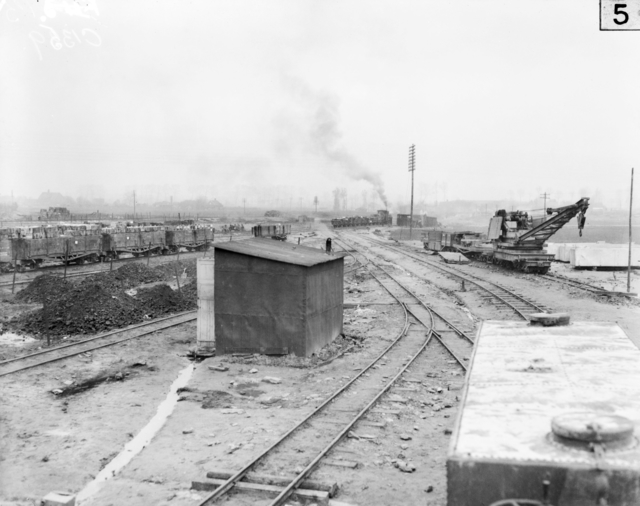 Western Front: Western Front (Belgium), Ypres Area, Poperinghe. The main yards of the 2nd Australian Light Railway Operating Company at Pacific. On the left several light rail trucks are loaded with crates, probably containing ammunition; on the right is a 16-wheel hand-powered, 6-ton capacity, partially armoured light railway crane, built by Ransomes and Rapier of Ipswich, England.